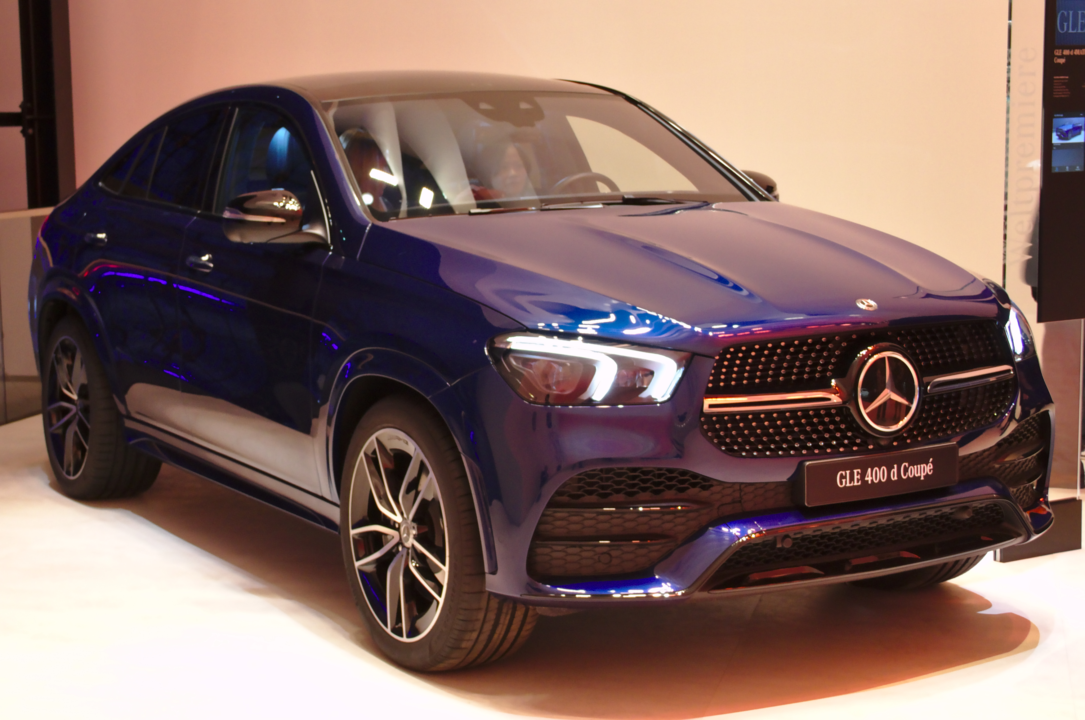 Mercedes-AMG_C167 at IAA 2019